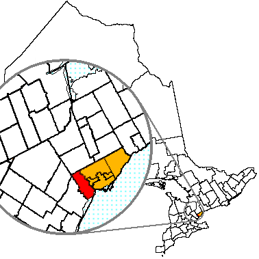 I made this image, from Image:Toronto_Scarborough_location.png